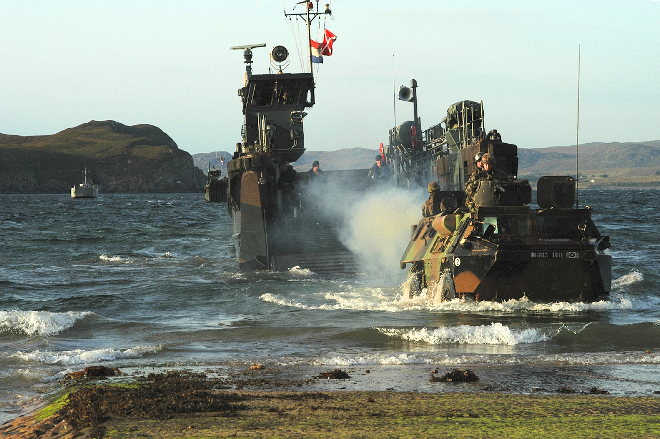 A French Marine VAB takes the beach during a Non-combatant Evacuation Operation (NEO) exercise held on the western coast of Scotland. The VAB (Véhicule de l'Avant Blindé) is a front-line tactical armoured vehicle that can be fitted with a selection of weapon systems including a 12.7 mm or 25 mm Dragar turret, an anti-tank missile launcher turret or a variety of mortar systems. The event is part of Exercise Northern Light 03, which includes military personnel from 12 NATO nations, and is held every four years.